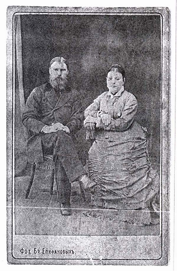 Yakov Venediktovich Larin